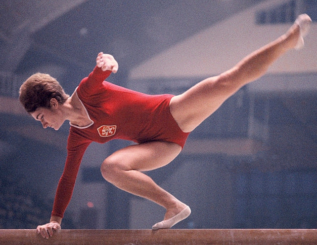 Hana Růžičková at the 1964 Olympics